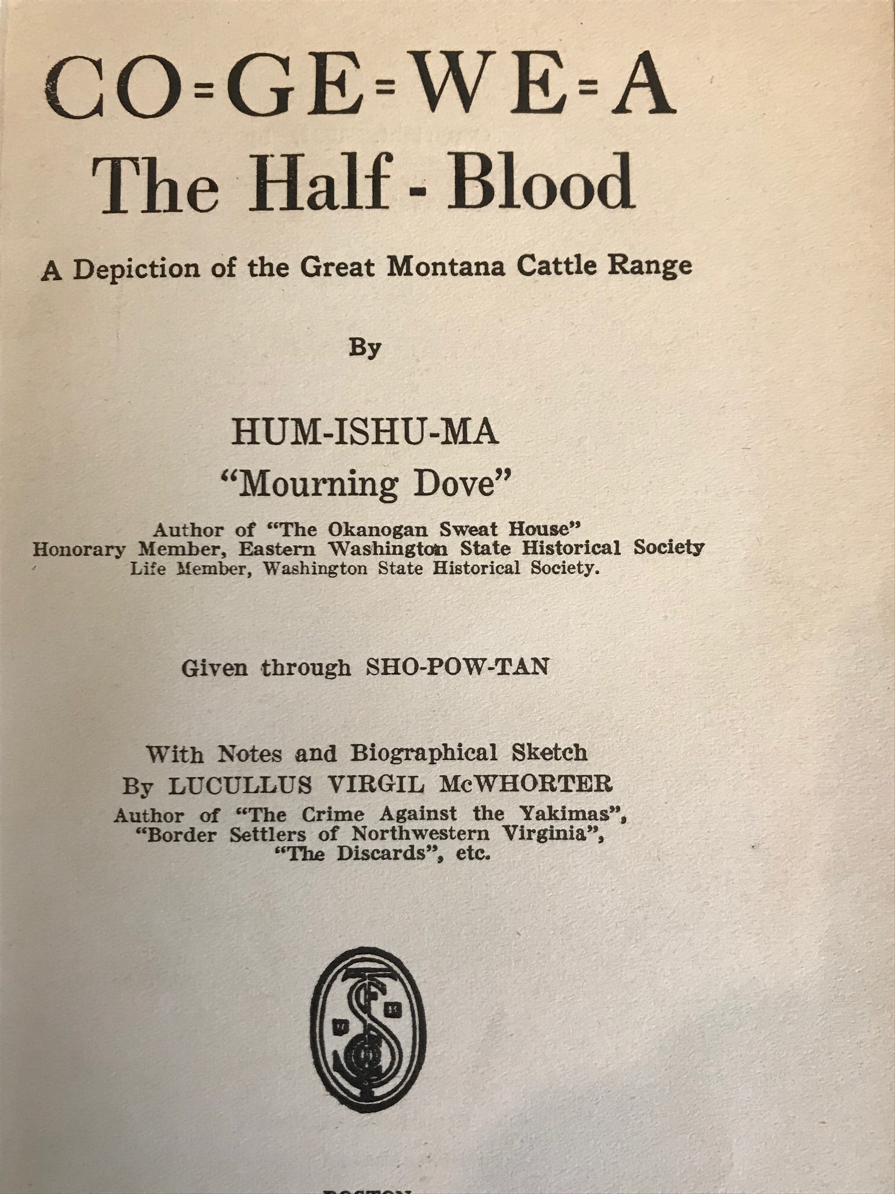 Information about Cogewea (author name and publisher)